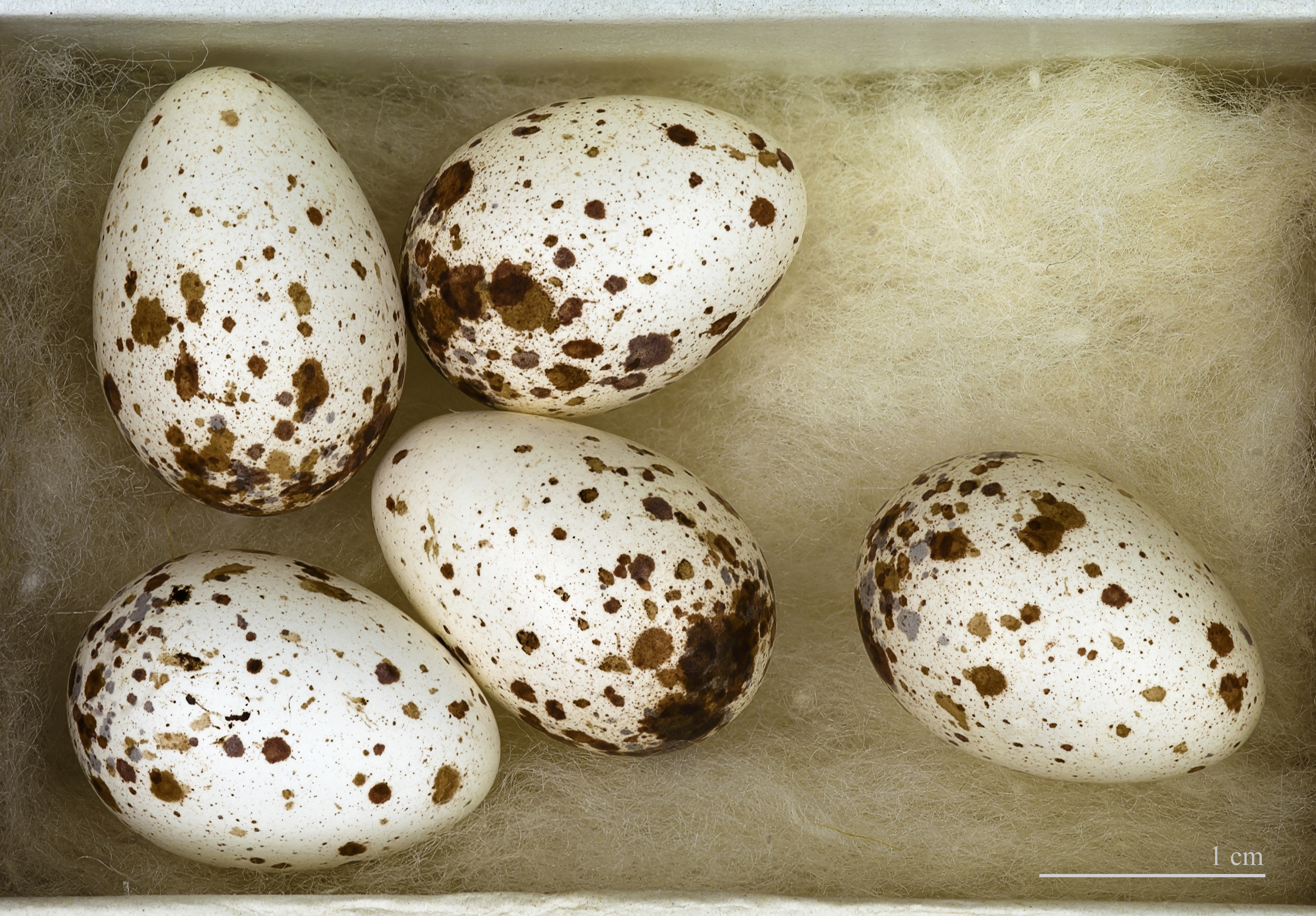 Egg of Barn Swallow. Collection of Jacques Perrin de Brichambaut.